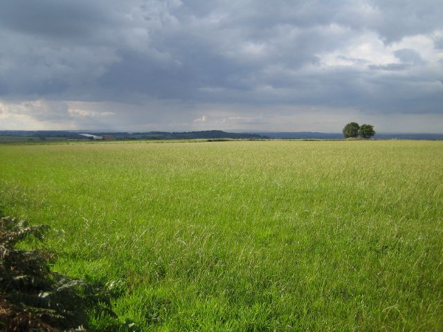 Batcombe Down. Green!